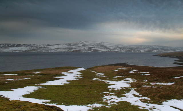 Cow Green Reservoir View from Cow Green looking across Cow Green Reservoir towards Meldon Hill.